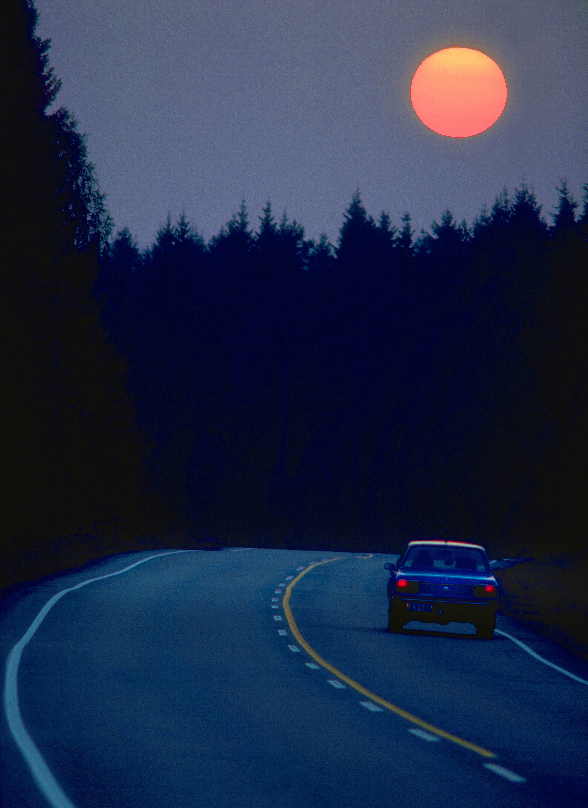 Main road 25 (main road 53 the picture was taken) between Hanko and Hyvinkää, sunset, Finland, early 1990s.